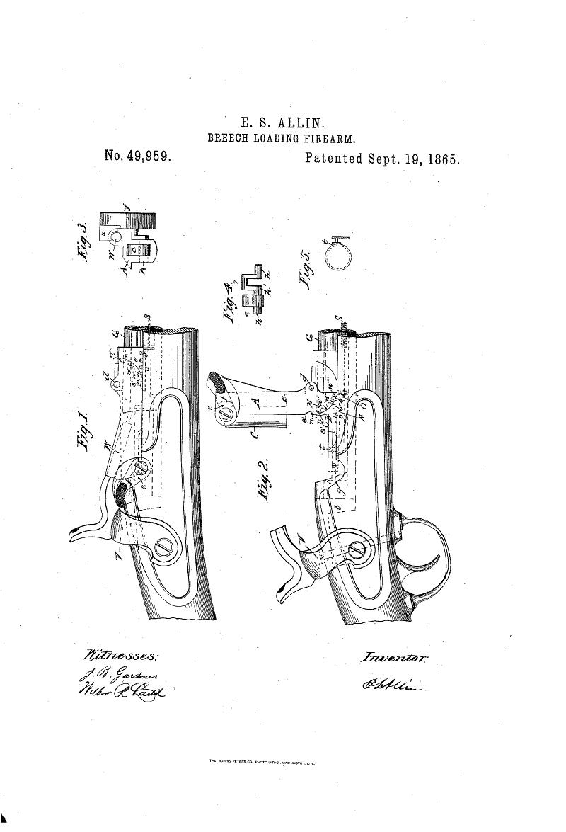 Drawing from Patent 49,959 showing Erskine S. Allin's design for a breech loading conversion to civil war rifled muskets.